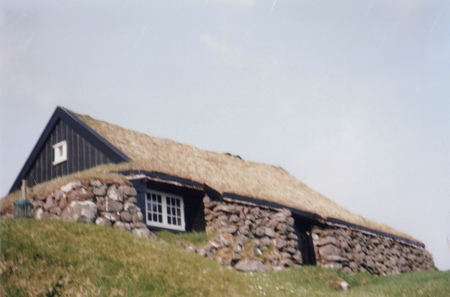 House Kálvalíd, Vagar island, Faroe Islands